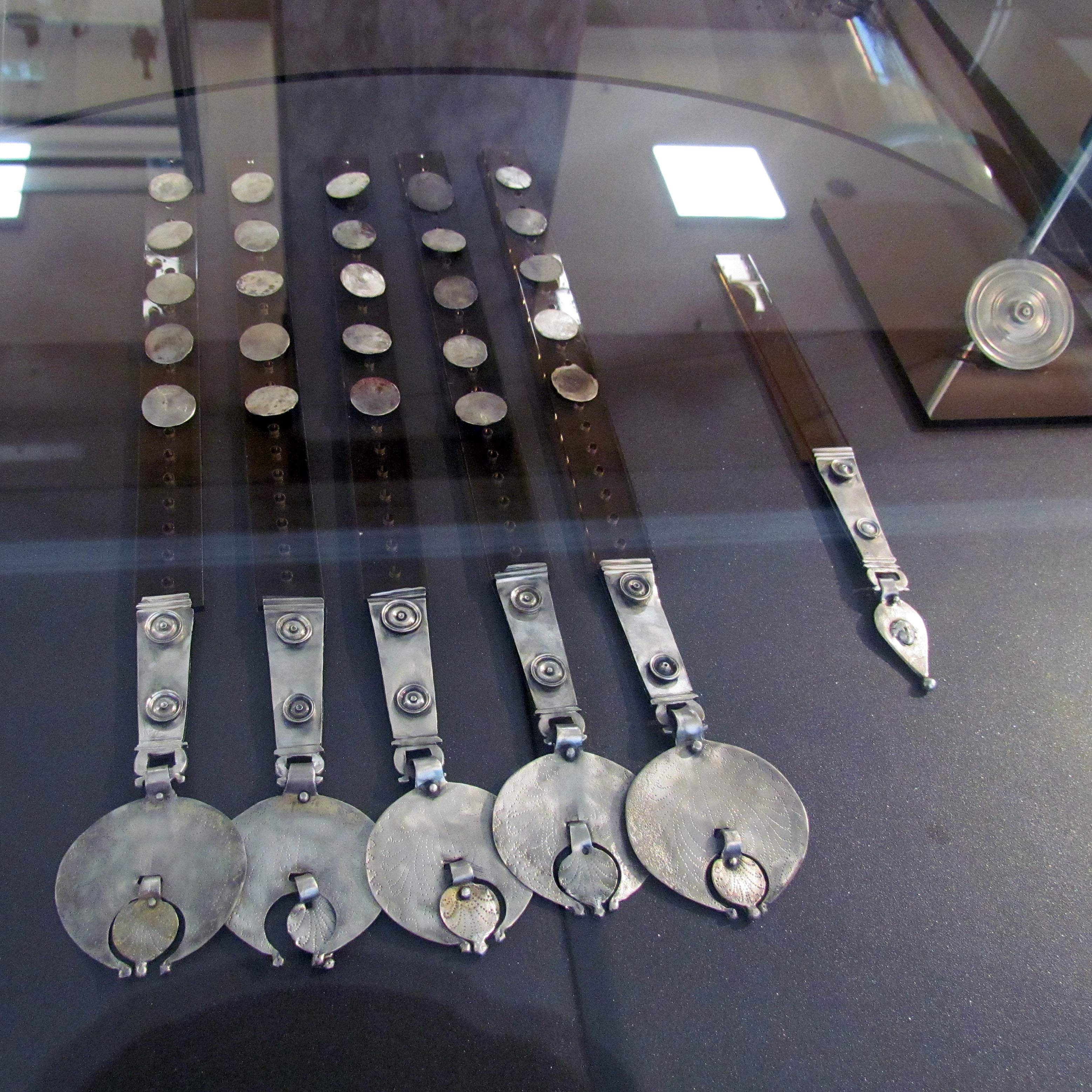 Cingulum militare1, Tekija, National museum of Serbia